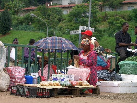 Street vendors in the centre of Mbabane, the capital of Eswatini